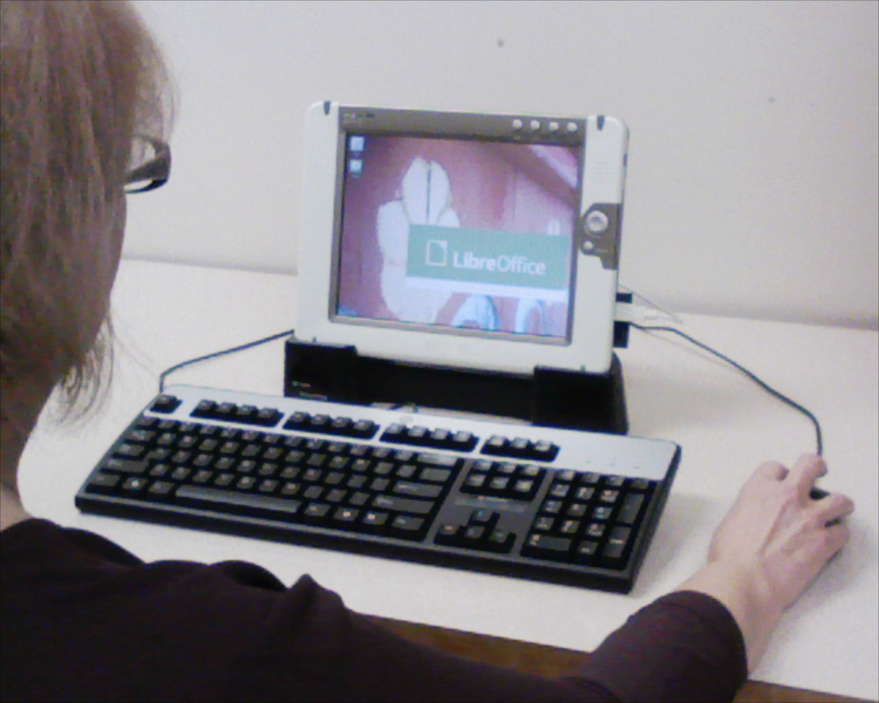 The antiX operating system, Version 15, "Killah P", in use on a Tatung TWN-5213 CU machine. The system was installed by the fromiso method. and .